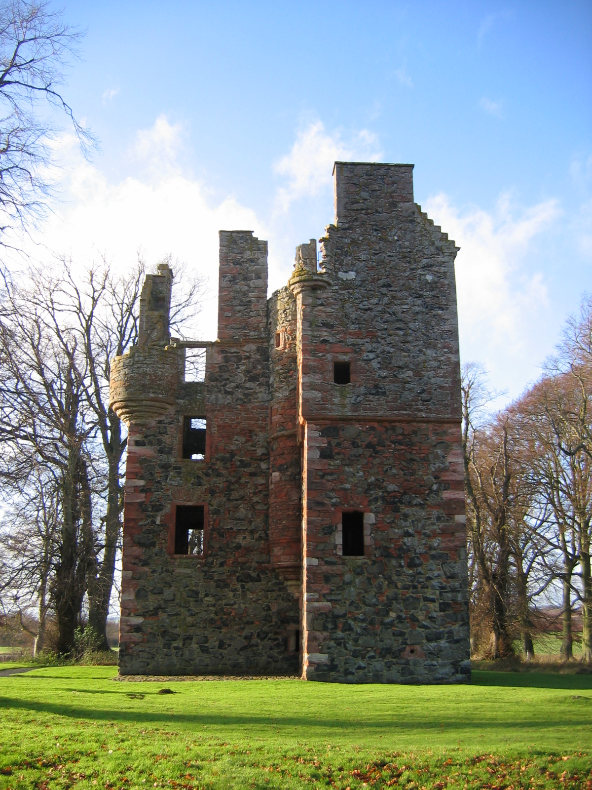 Greenknowe Tower, Scottish borders, seen from the east.